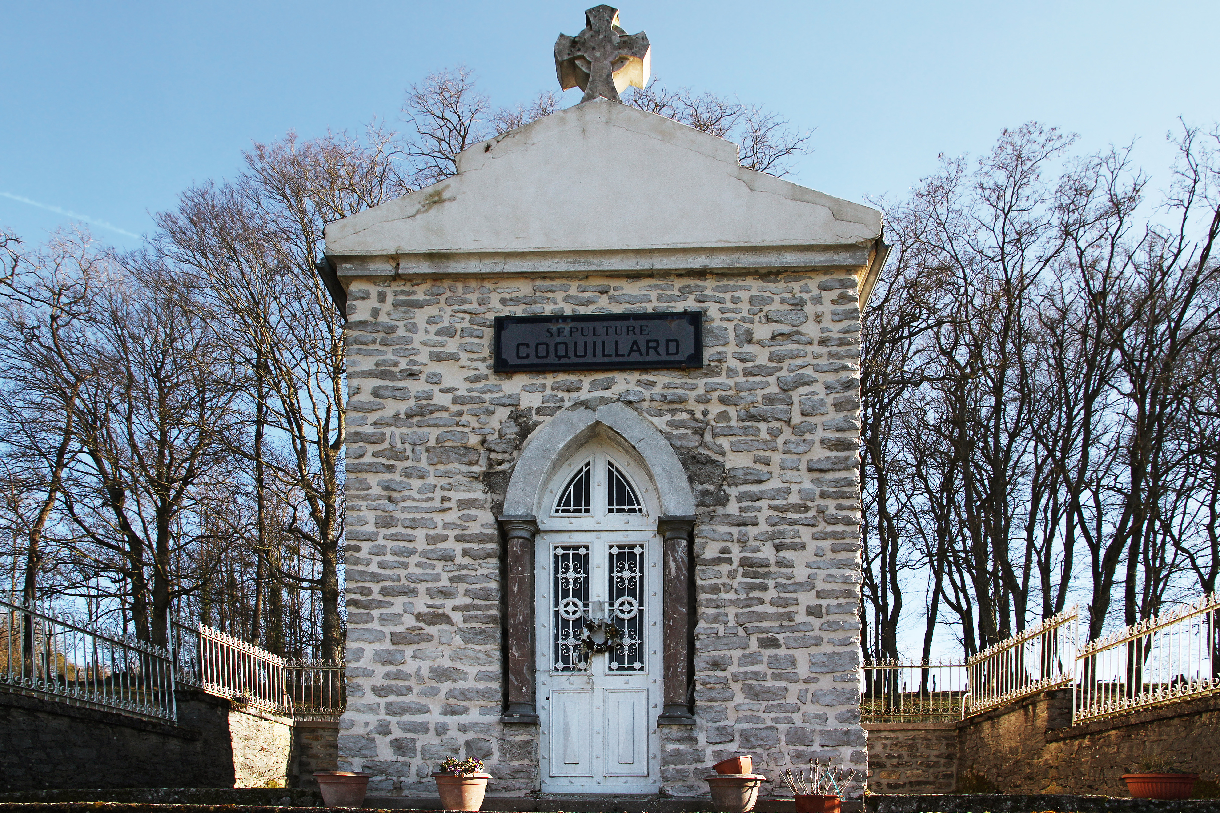 Funeral chapel of the familly Coquillard in Ninville